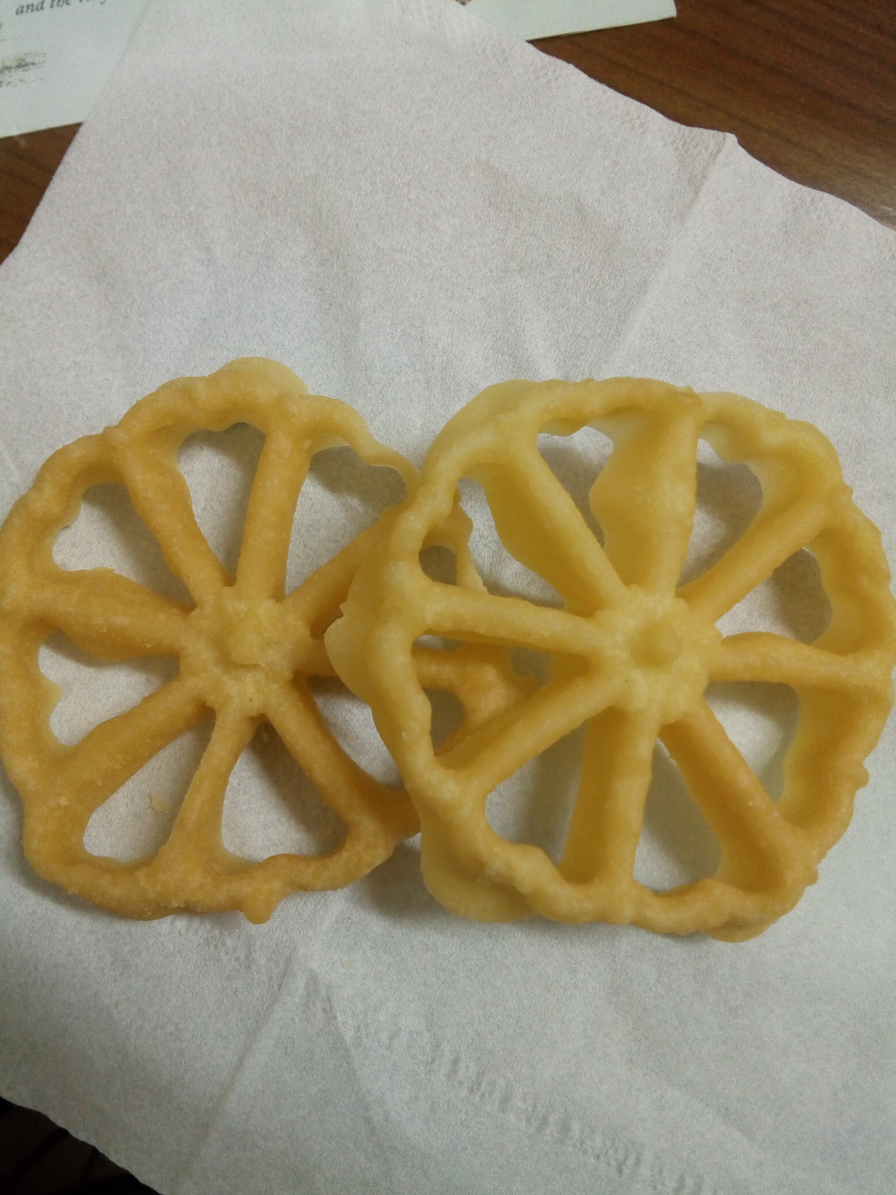 Kembang goyang biscuits from Betawi, Jakarta.